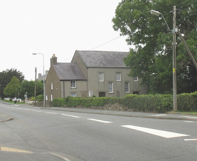 Capel Cildwrn Chapel. This was one of the first Congregational chapels to be built in Anglesey. Its most famous minister was the fiery, one-eyed, Christmas Evans who during his pastorate (1791-1826) conducted mass-attended outdoor preaching meetings throughout the island. He became known as the 'Bishop of Anglesey', while a rival evangelist, the ultra-Calvinistic fire and brimstone preacher, John Elias, also of Llangefni, was dubbed by his opponents, less kindly, as the "Pope of Anglesey" After the opening of Penuel, the Christmas Evans Memorial Chapel, in the centre of the town in 1897, Cildwrn was left disused for almost a century. In recent years it has been taken over by a Welsh Evangelical Church. 874339